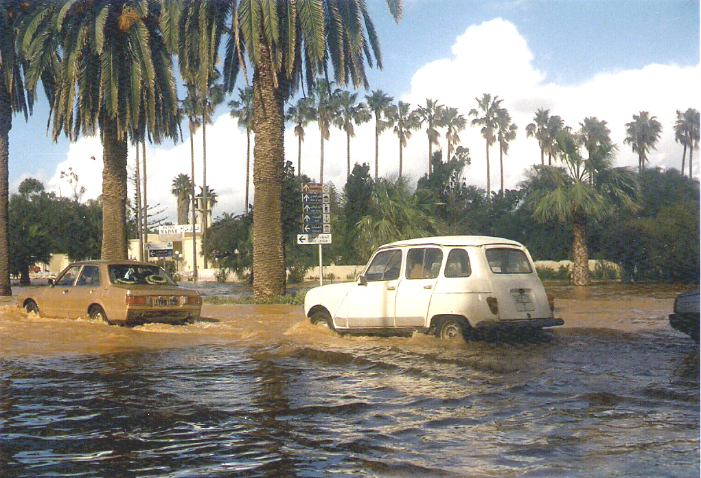 Flooding of Oued Flifla in El Jadida (1996) Walon: Grossès aiwes (afûrêye di l' Ouwed Flifla a El Djadida, Marok, 1996.